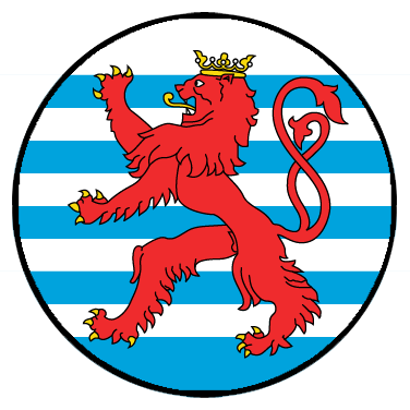 Aircraft Roundel of Luxembourg Aviation and NATO AWACs